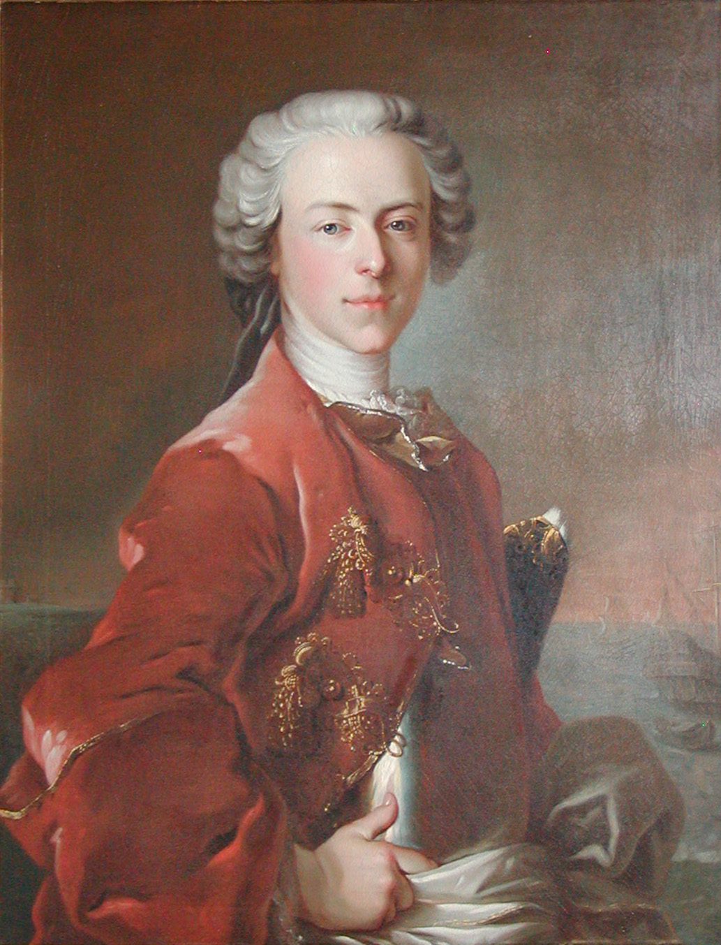 Copy of original painting